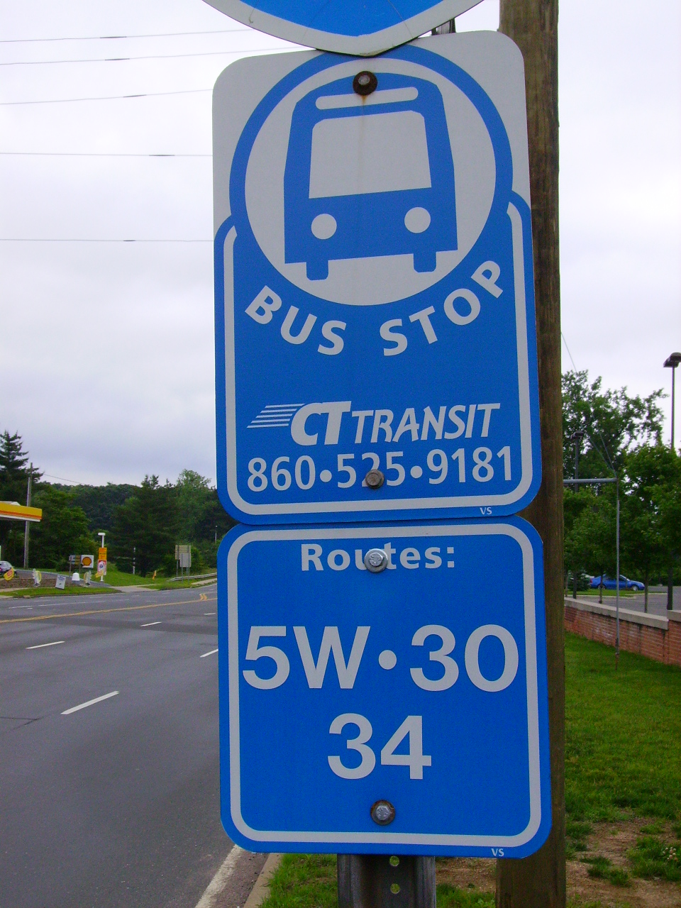 CTTRANSIT Bus Stop at Kennedy Road, Windsor, CT